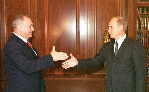 Vladimir Putin with Alexander Dzasokhov